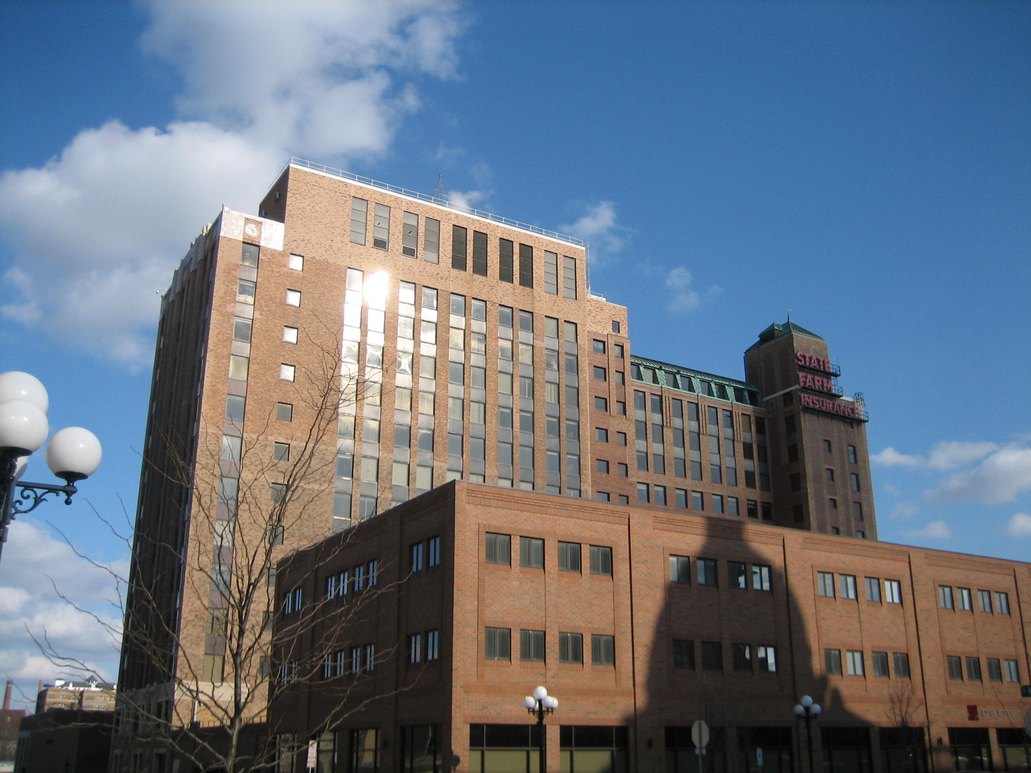 State Farm Insurance Building ("Fire Building"), Downtown Bloomington, Illinois. Bloomington Central Business District, National Register of Historic Places.